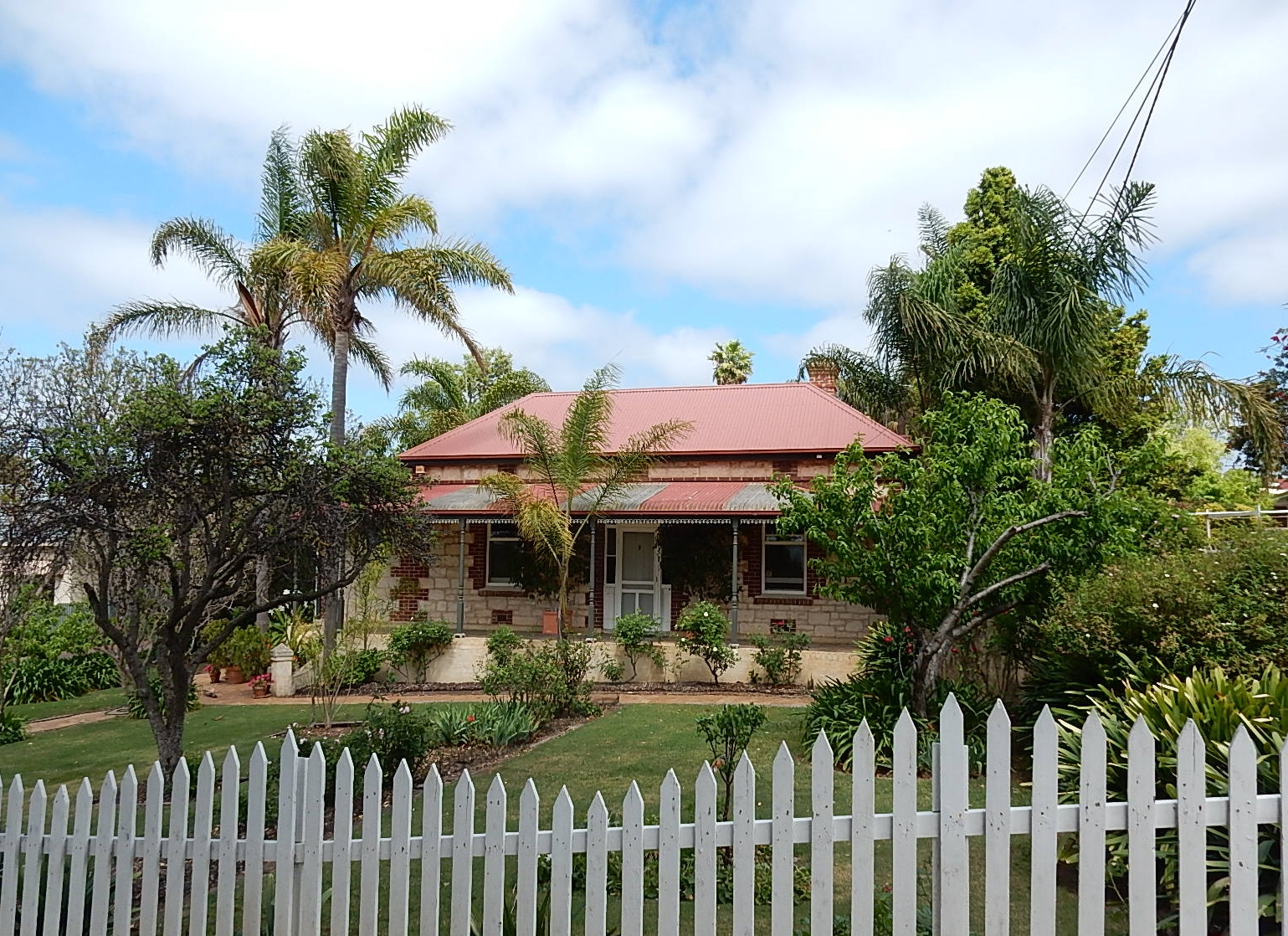 Old House With a Large Yard and a Picket Fence